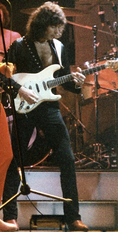 Cropped photo of Ritchie Blackmore at the Cow Palace in San Francisco, California